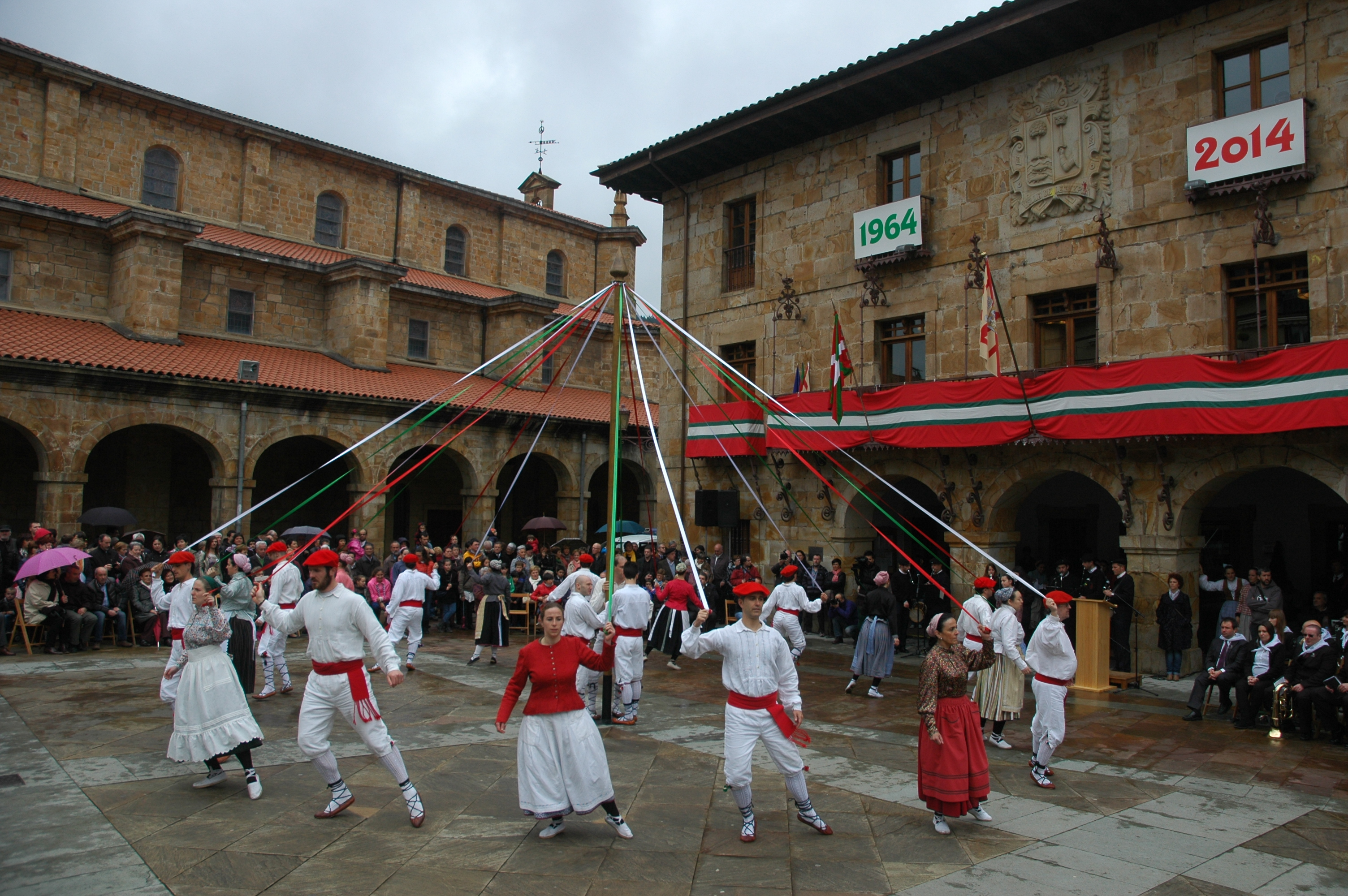 Maypole dancing in Legazpia